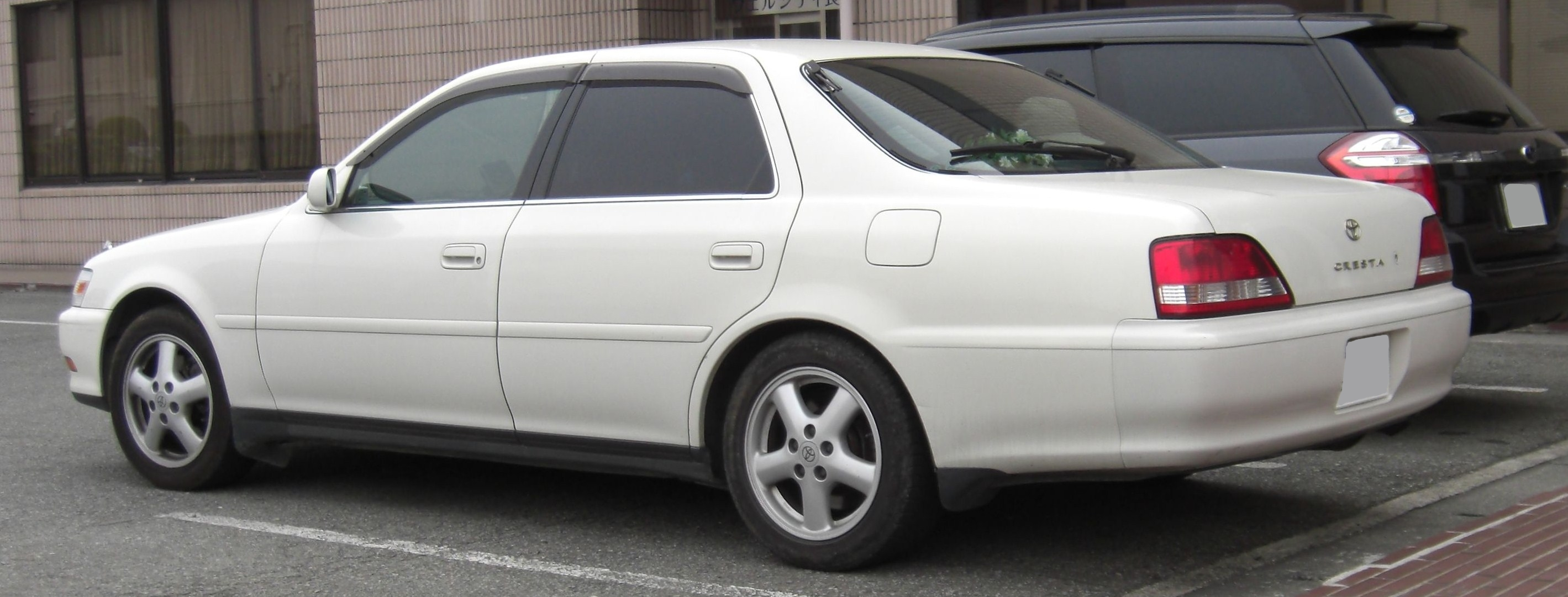 Toyota Cresta